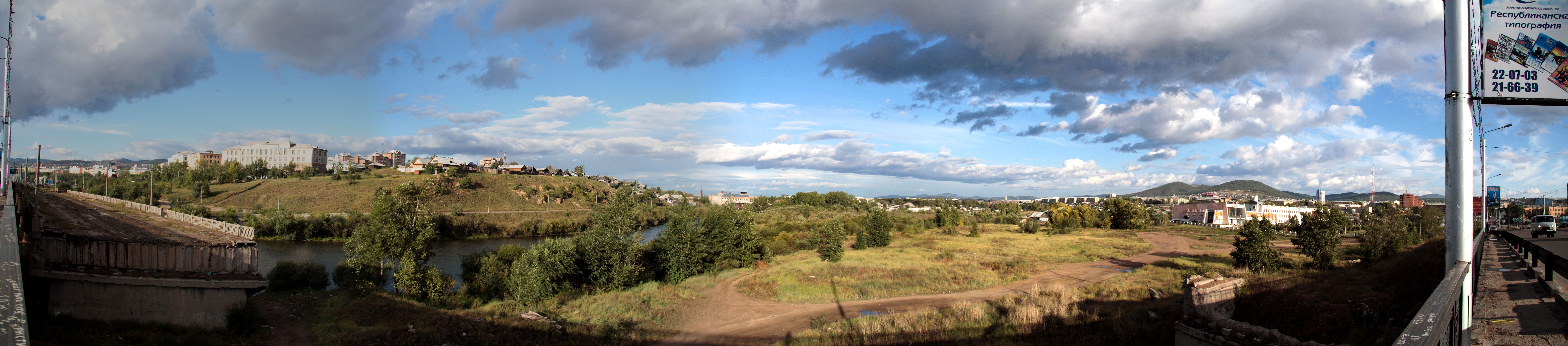 Ulan-Ude: a panoram of the city from the river Uda, September 2006